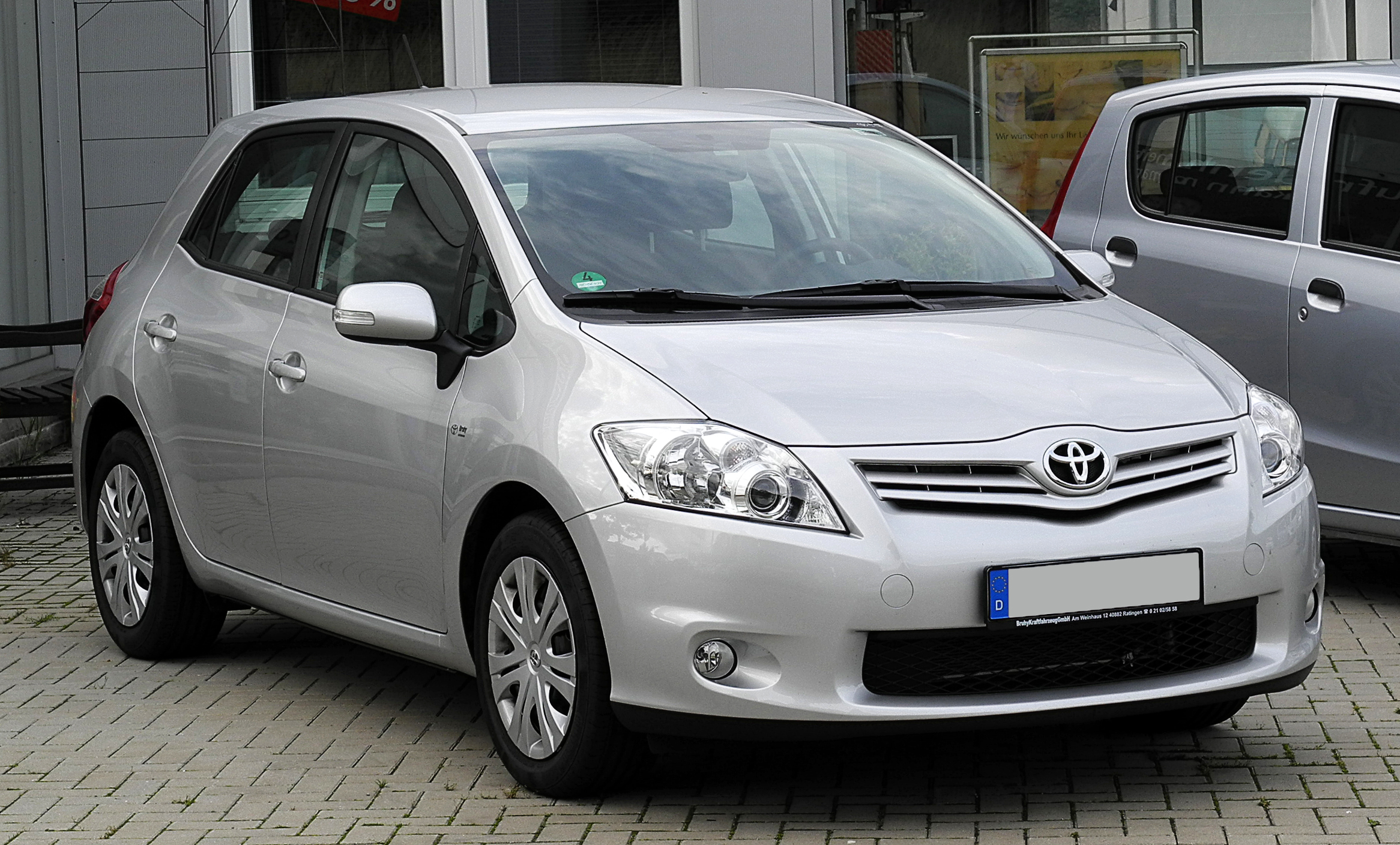 Toyota Auris 1.6 Life+ (Facelift)